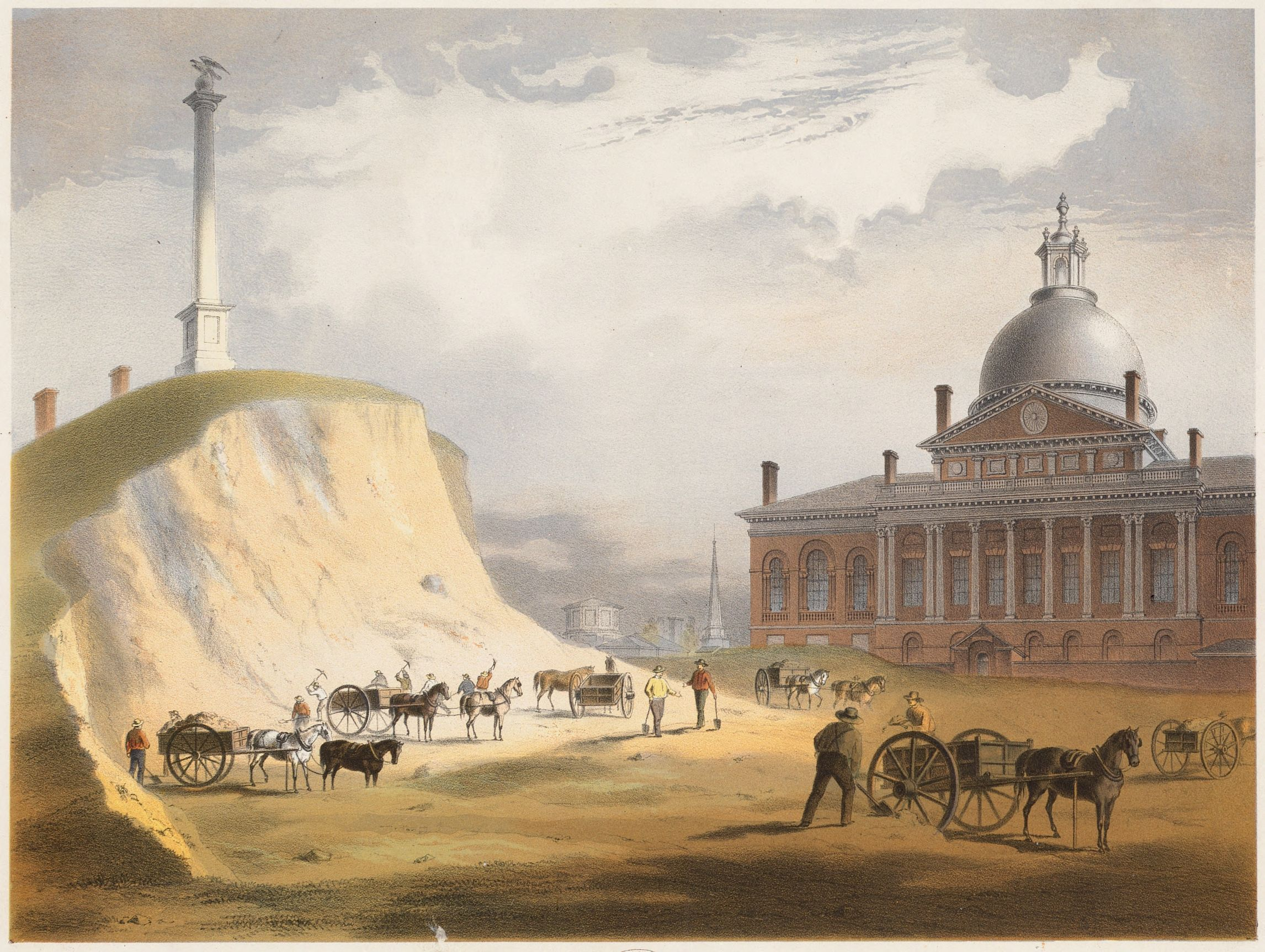 Cutting down Beacon Hill, c. 1800. Edited version of image from - MIT Open Courseware Terms of Use: Category:Images of Boston, Massachusetts